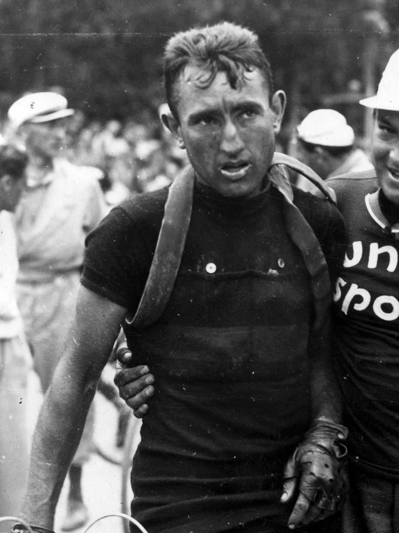 Cycling, 1936 Tour de France, 8th stage Grenoble-Briançon. After today's stage, Belgian Sylvère Maes (left) is the new overall leader; at the far right the second placed Pierre Clémens from Luxembourg. Briançon, 16 July 1936.